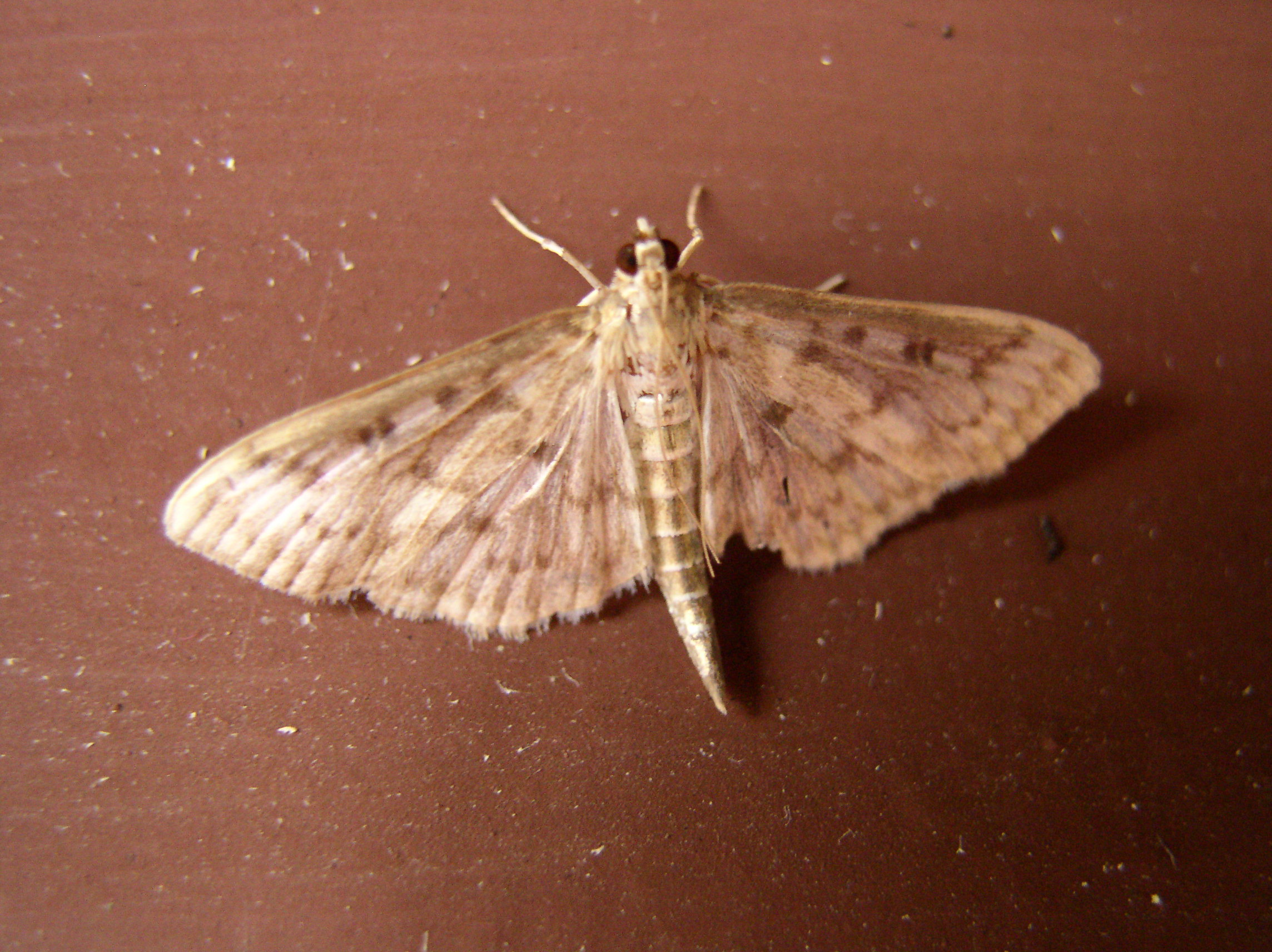 Crambid moth, Herpetogramma abdominalis. Rock Harbor, Isle Royale National Park, Keweenaw County, Michigan, USA.